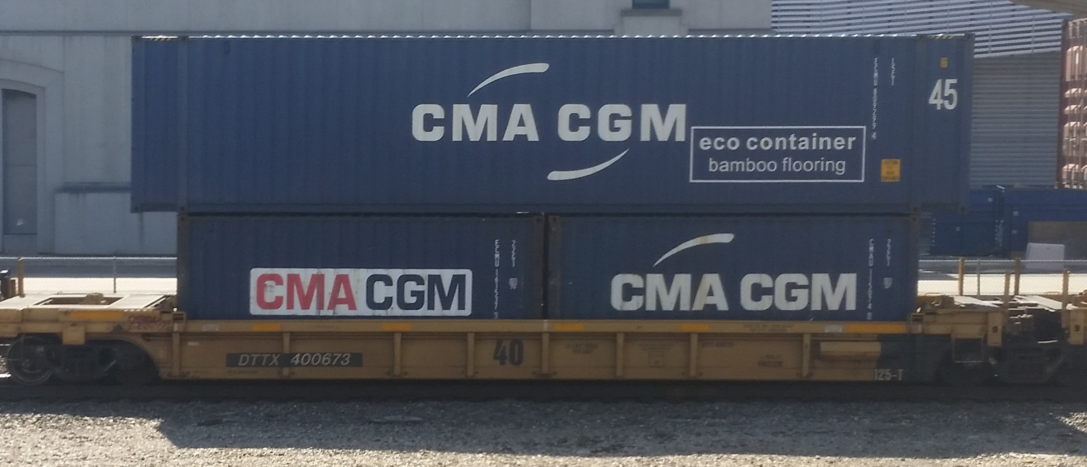 CGM CGM container on train